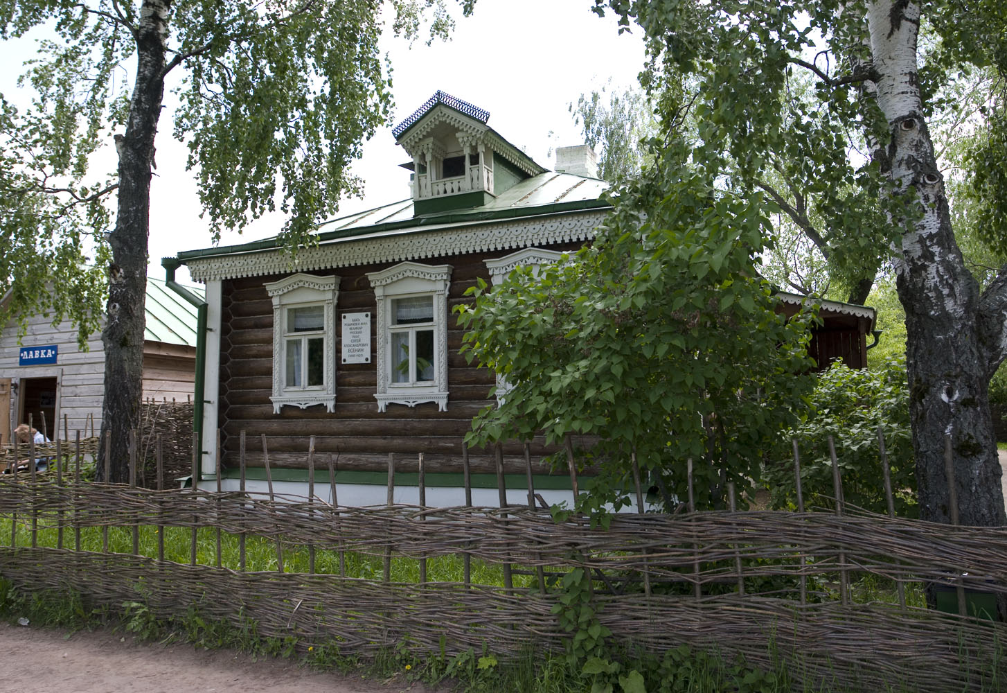 House of Esenin, Konstantinovo, Ryazanskaya oblast